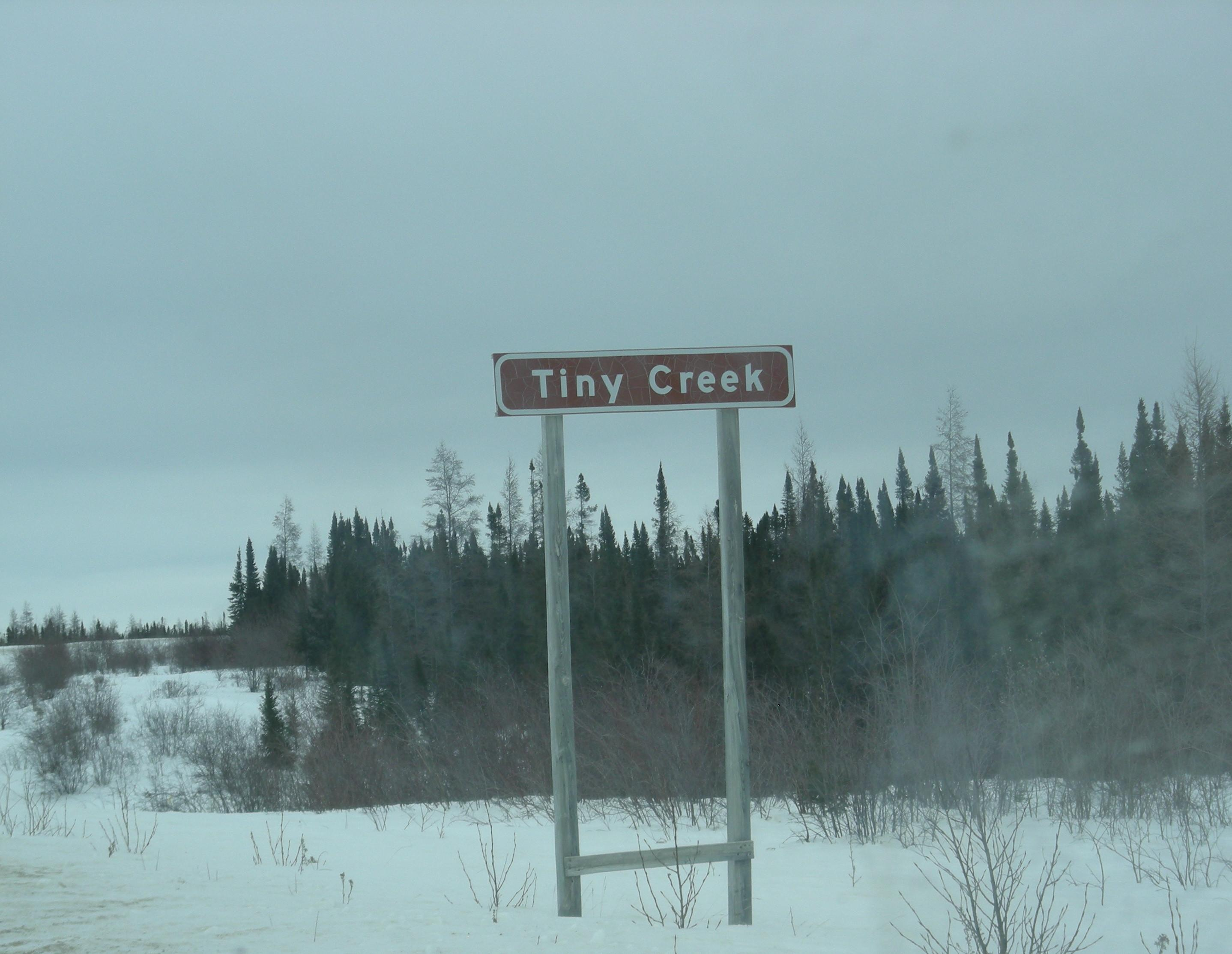 Tiny Creek sign near Gillam, Manitoba